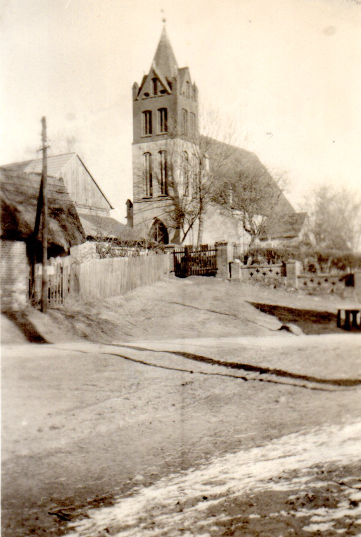 Sankt Petri Kirche in Laatzig bis ca. 1945